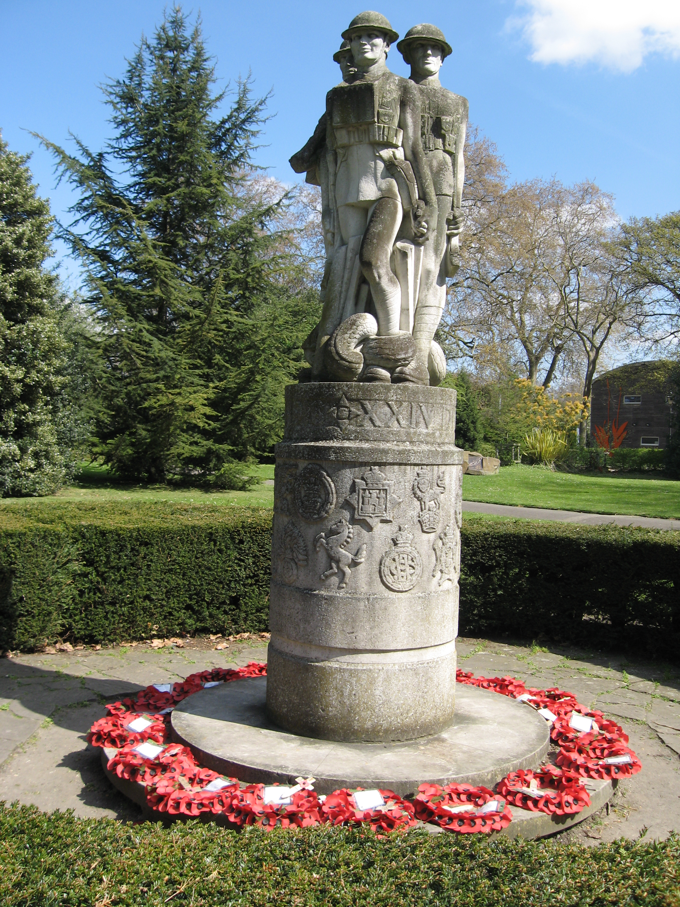 Sculpture by Eric Kennington (1888 – 1960), to commemorate the 24th London Division. It was his first work of sculpture. The work was unveiled by Lord Plumer and dedicated by the Bishop of Southwark in October 1924.